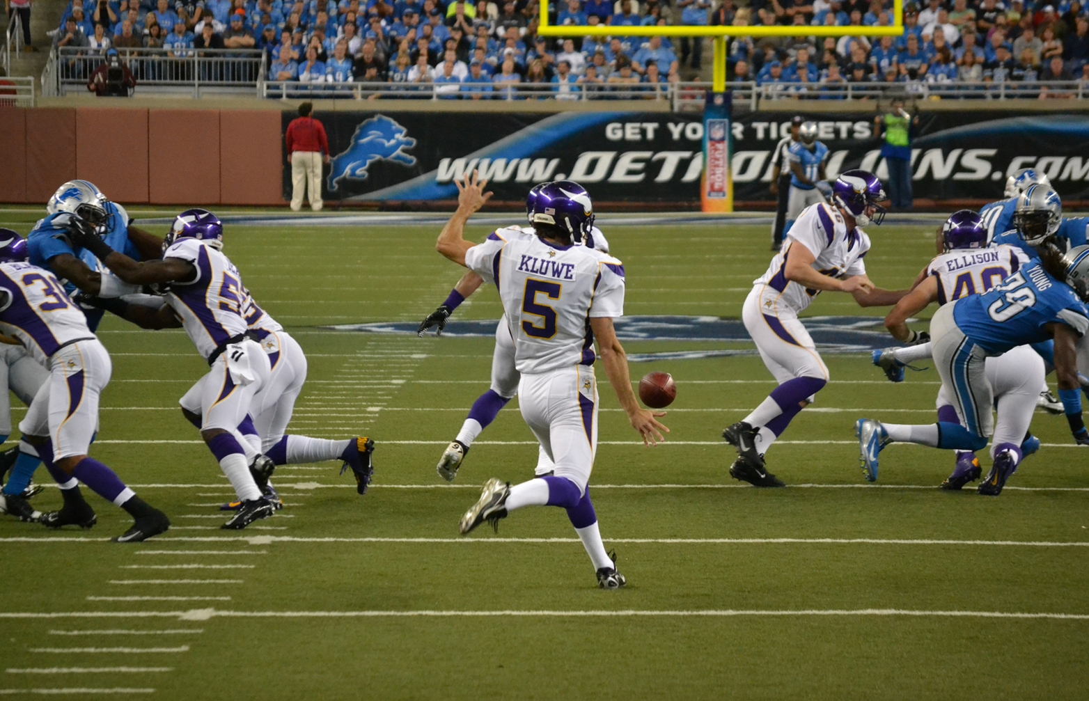 Chris Kluwe, of the Minnesota Vikings, punts the ball in a game against the Detroit Lions on November 30, 2012. The Vikings won the game, 20-13.